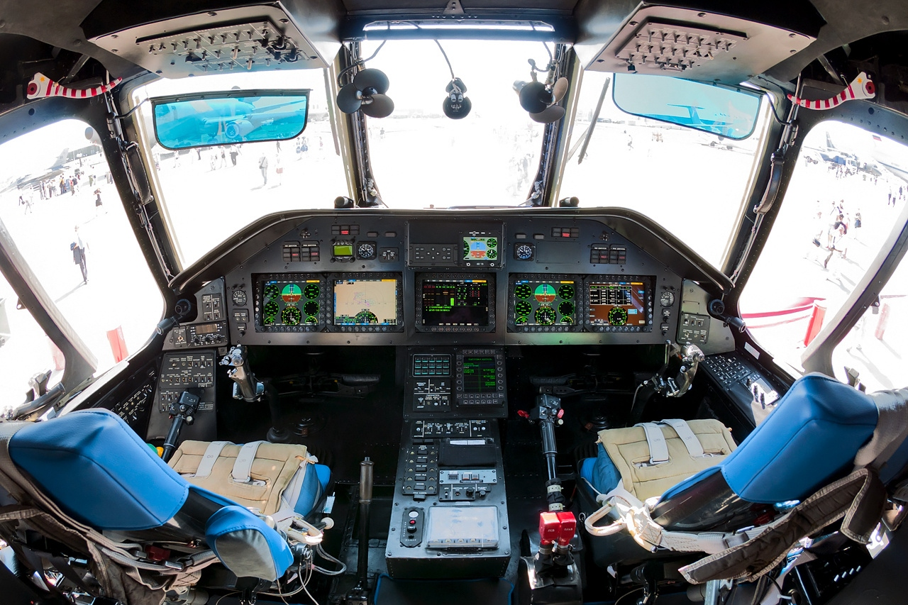 The cockpit of the new modification of heavy transport helicopter Mi-26T2. Features which are setting a new digital avionics complex, which has reduced helicopter crew to two pilots.